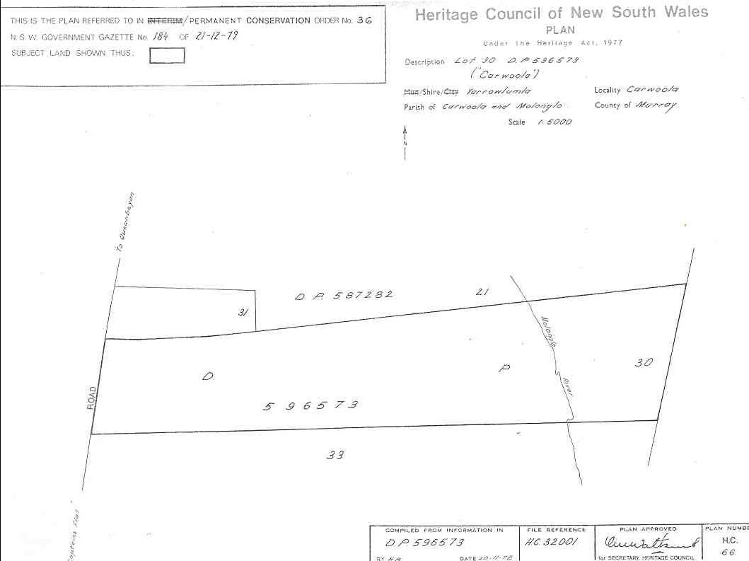 Carwoola Homestead: PCO Plan Number 036